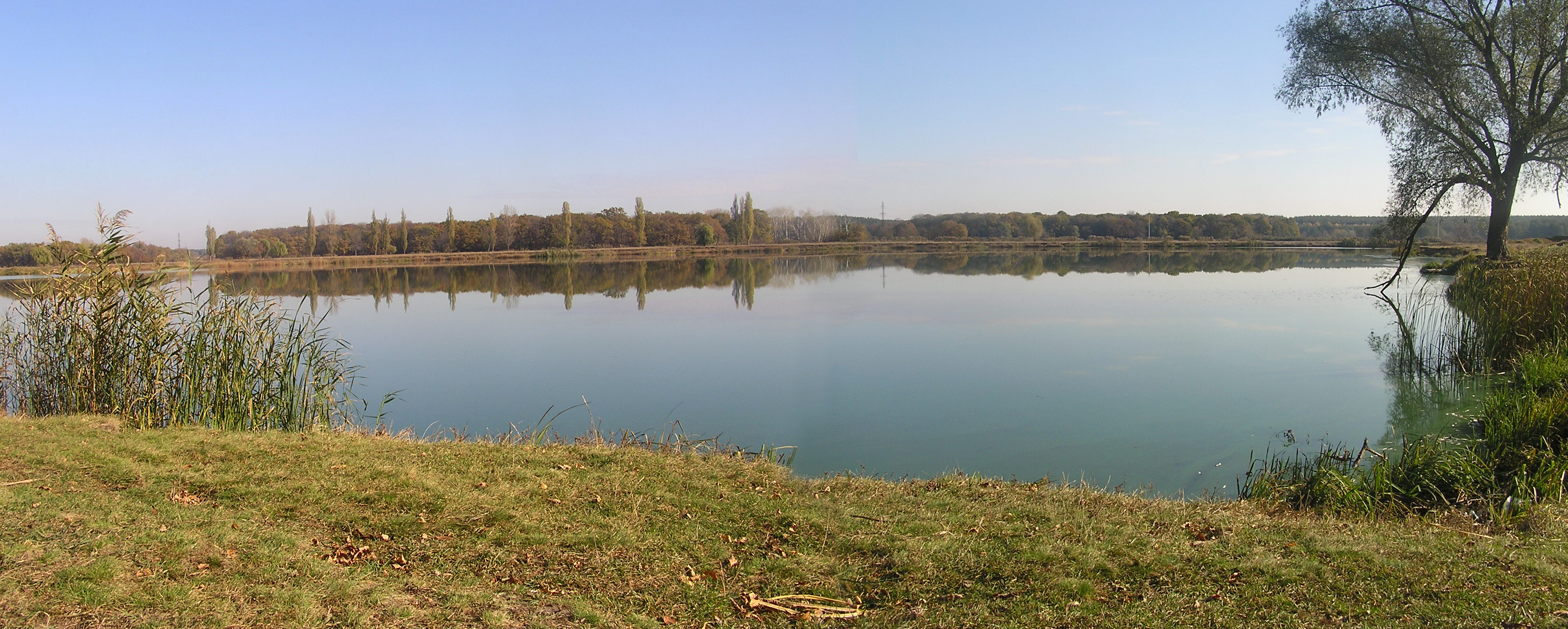 The lake on the river Kolomak (Ukraine, Poltava)